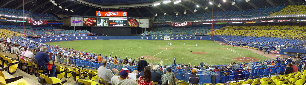 Montreal's Olympic Stadium.